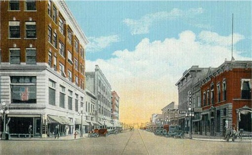 DeMers Avenue in Grand Forks, North Dakota